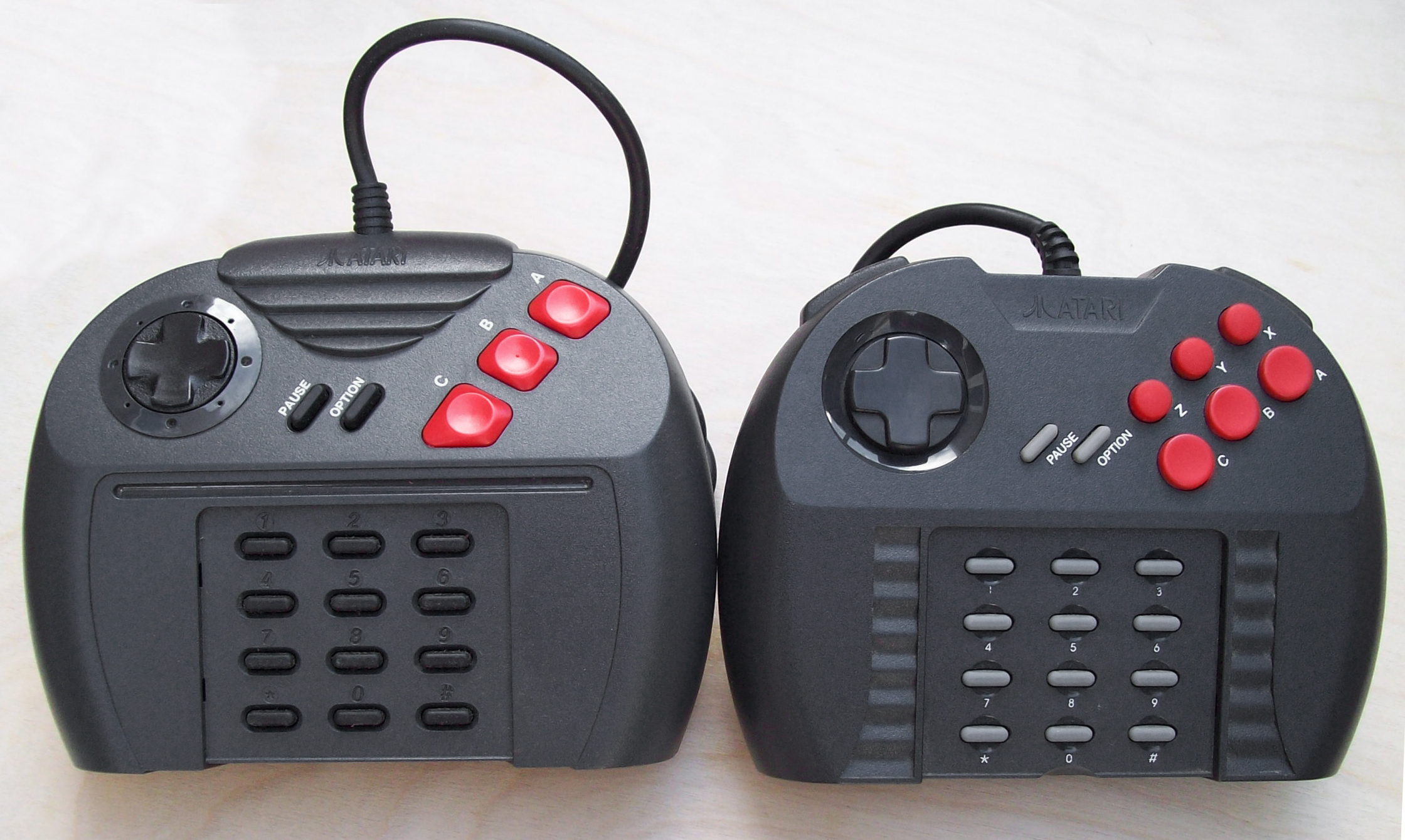 side by side comparison of the original Atari Jaguar controller, and the later "Pro" controller